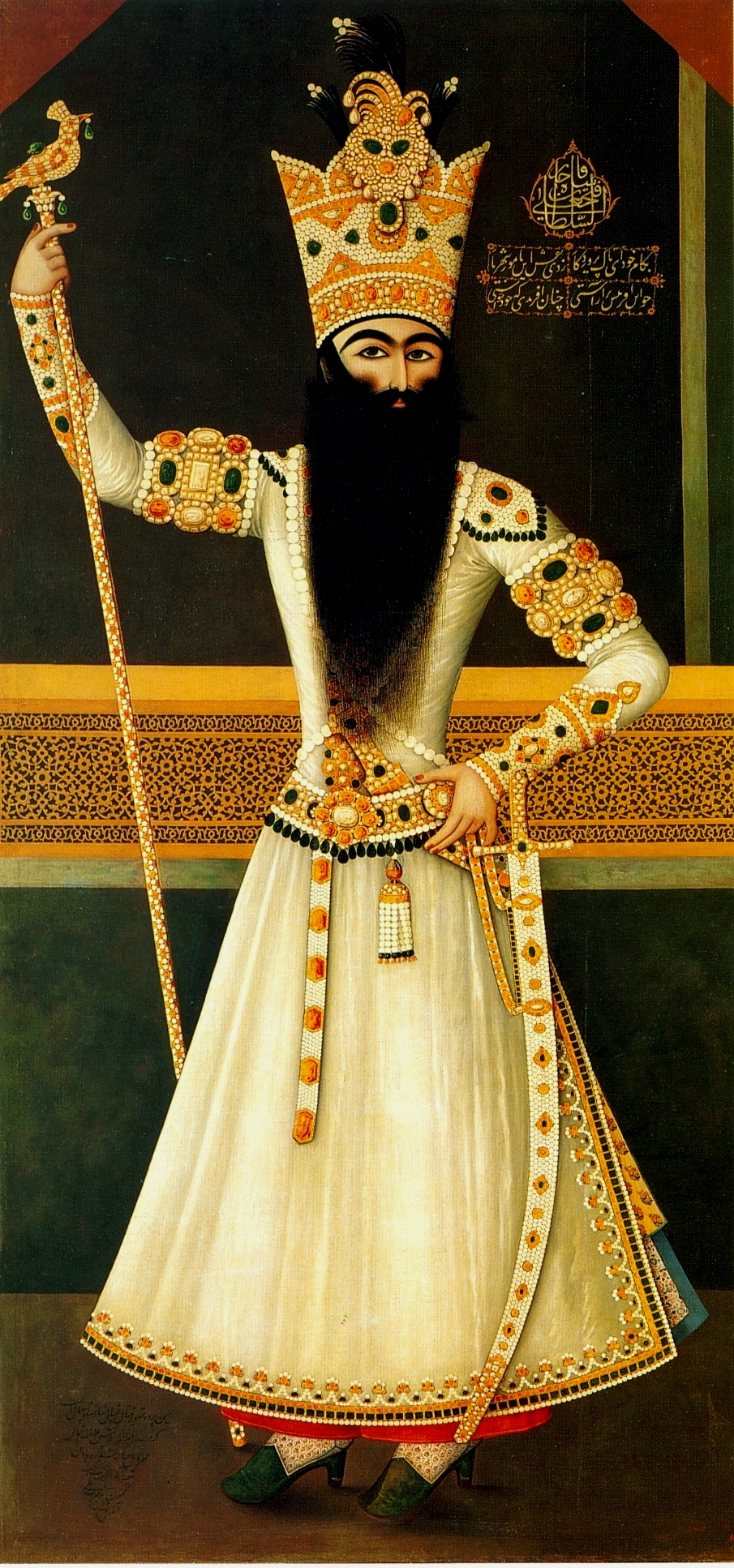 Fat′h Ali Shah Qajar